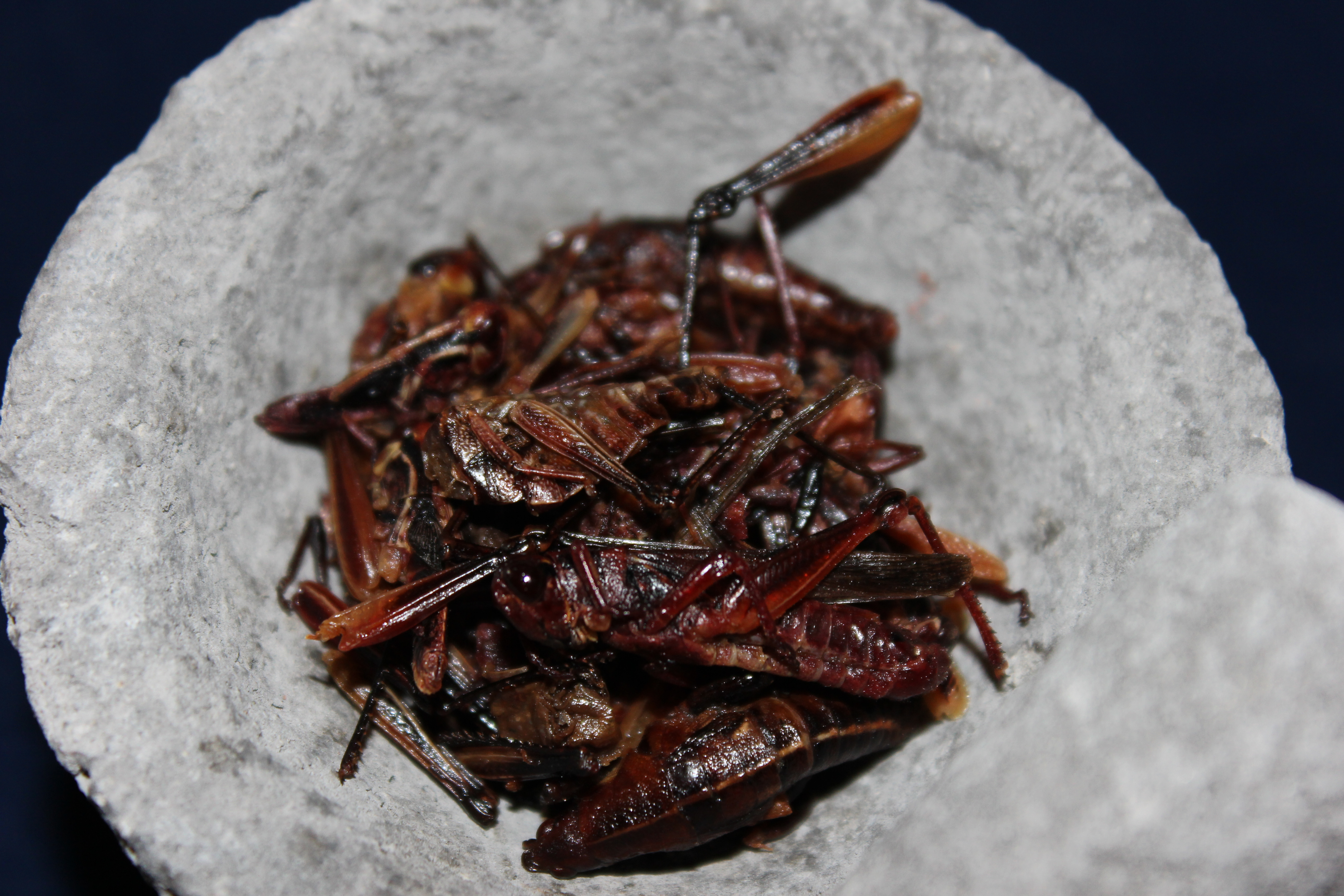 Roasted insects in Mexico City